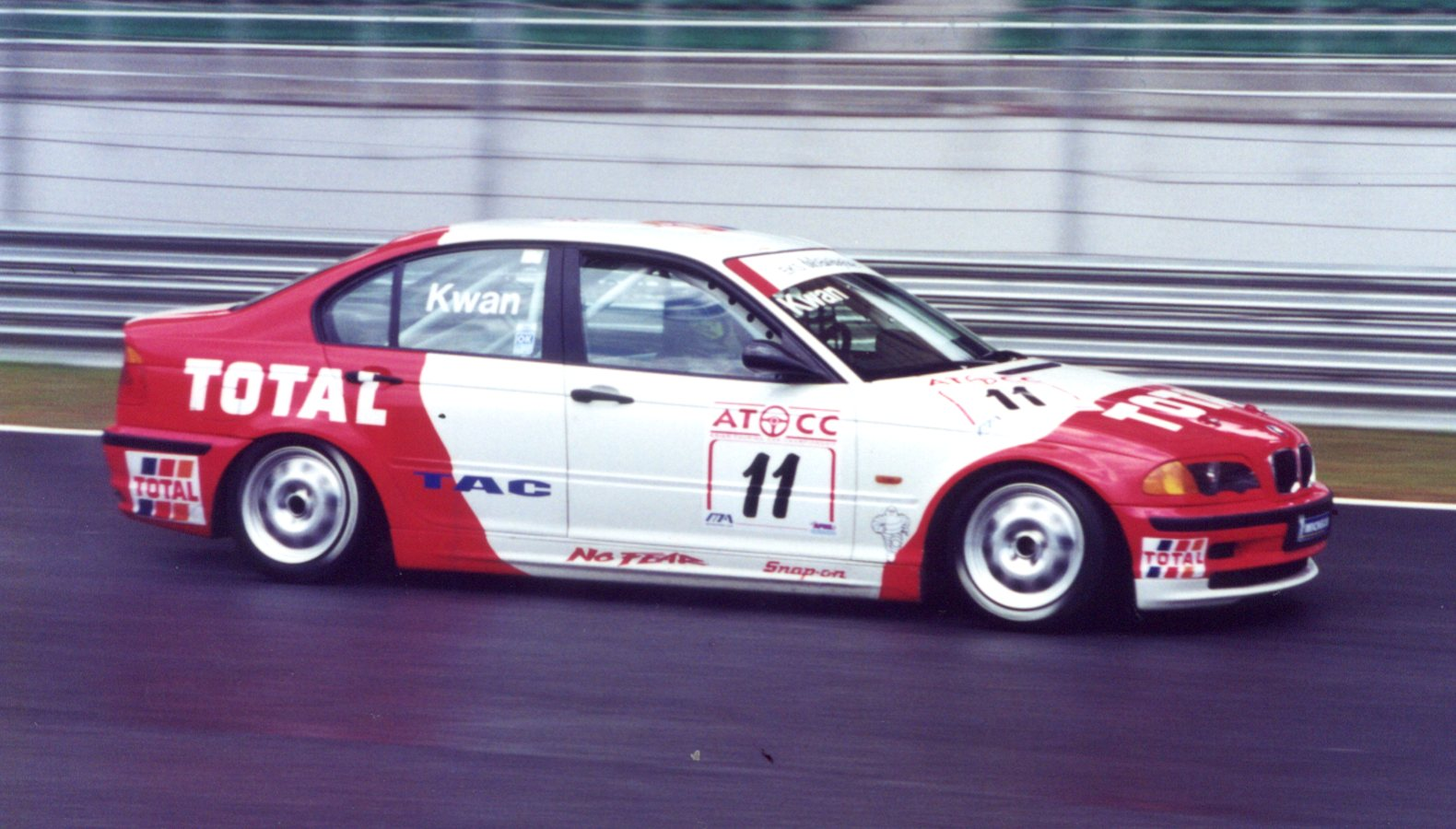 2001 Charles Kwan in his BMW320i